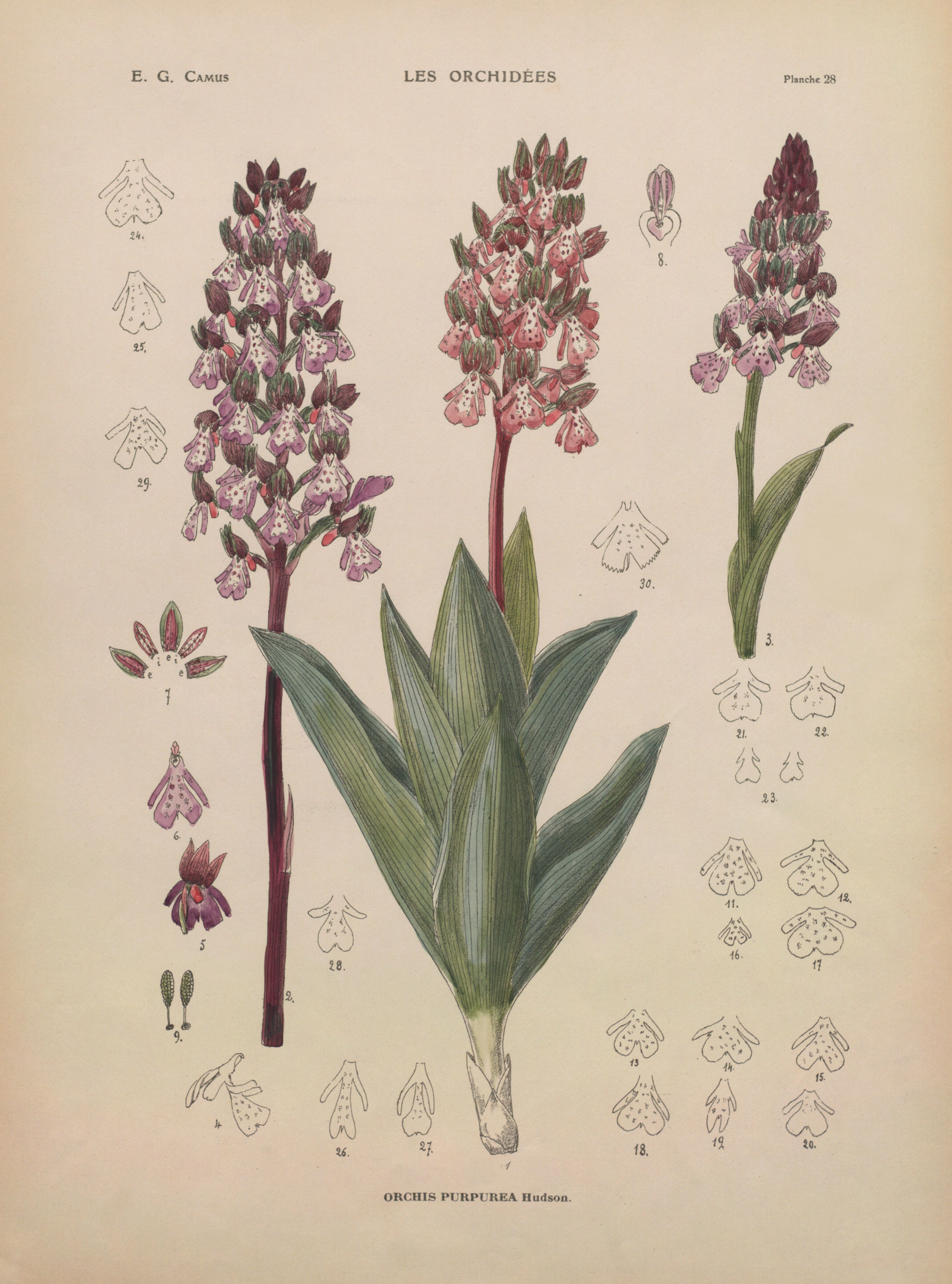 Orchis purpurea Hudson.